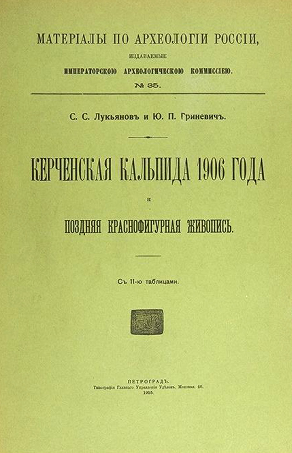 Book. "Kerch hydria". S. Lukyanov. Yu. Grinevich. 1915.